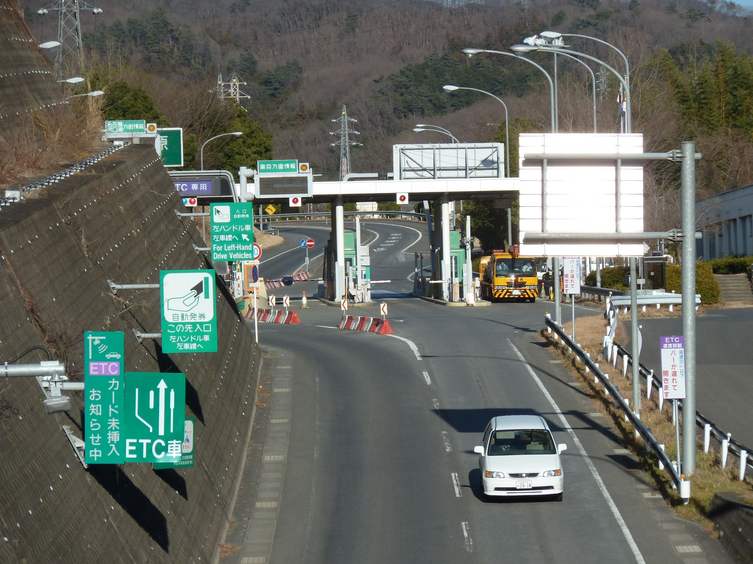 Toll gates at Uenohara Interchange on the Chuo Expressway